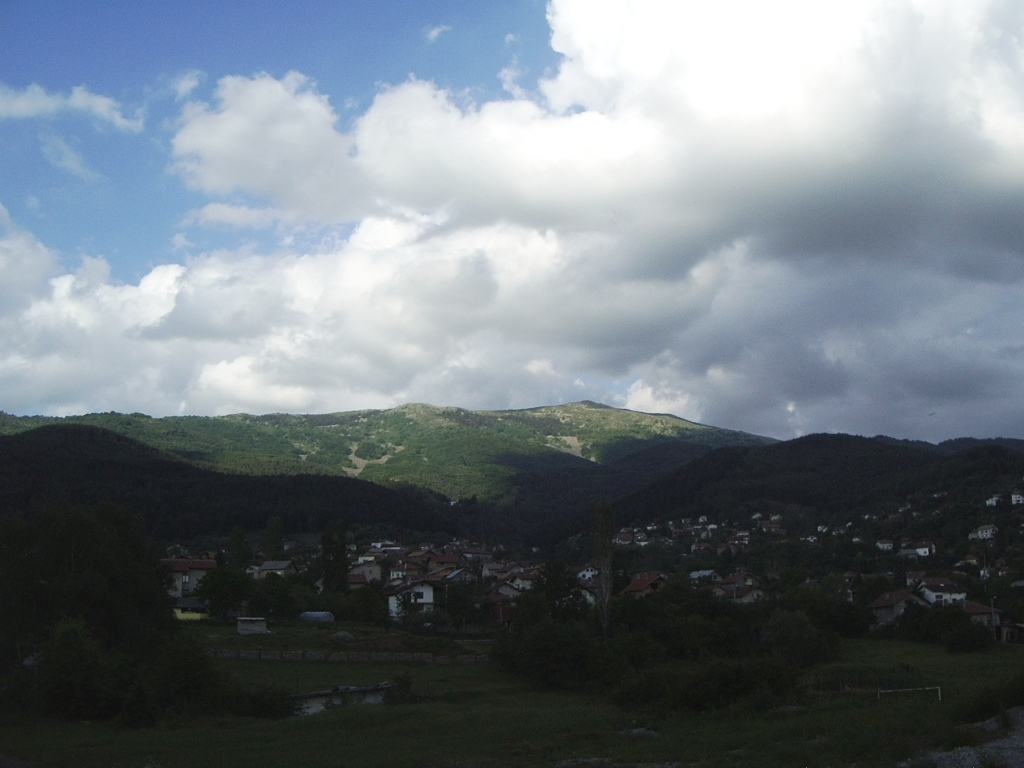 View to village Kladnitsa, Bulgaria